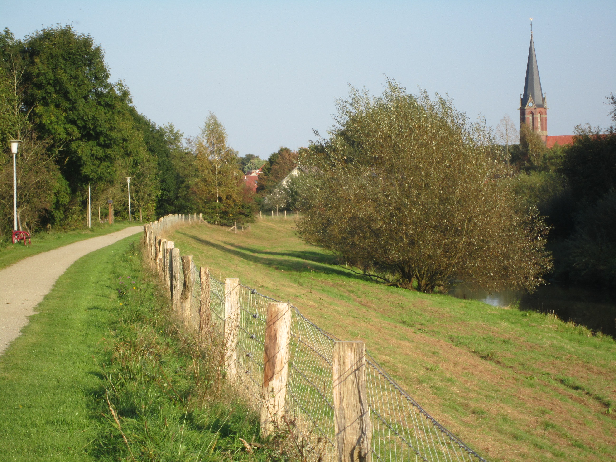 Bank of the Lager Hase near Essen in Oldenburg; on the left side the "Hase-Ems-Tour" (far distance bikeway), in the background the roman catholic parish church St. Bartholomäus